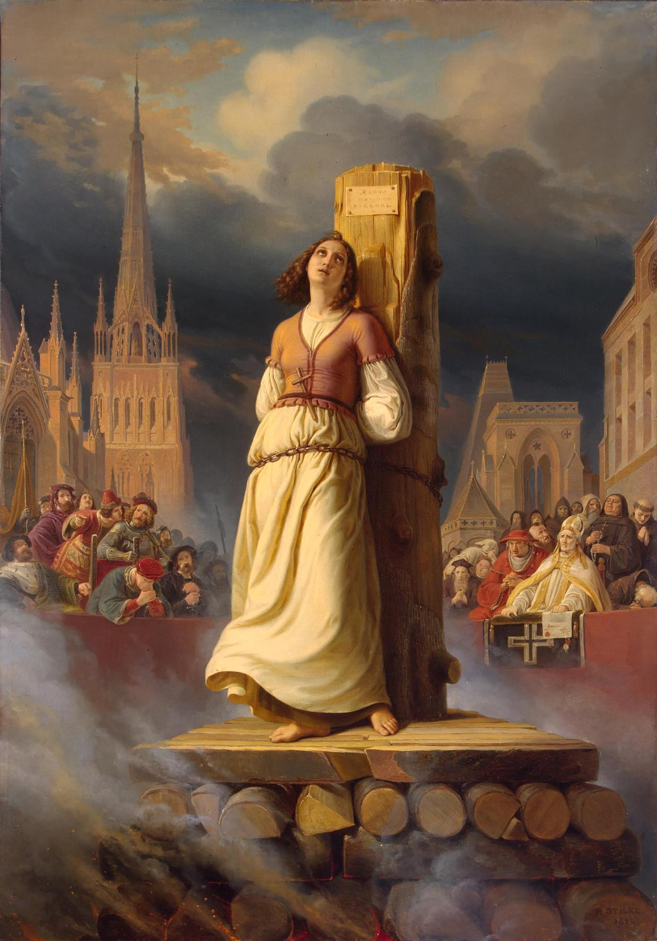 Right-Hand Part of The Life of Joan of Arc Triptych